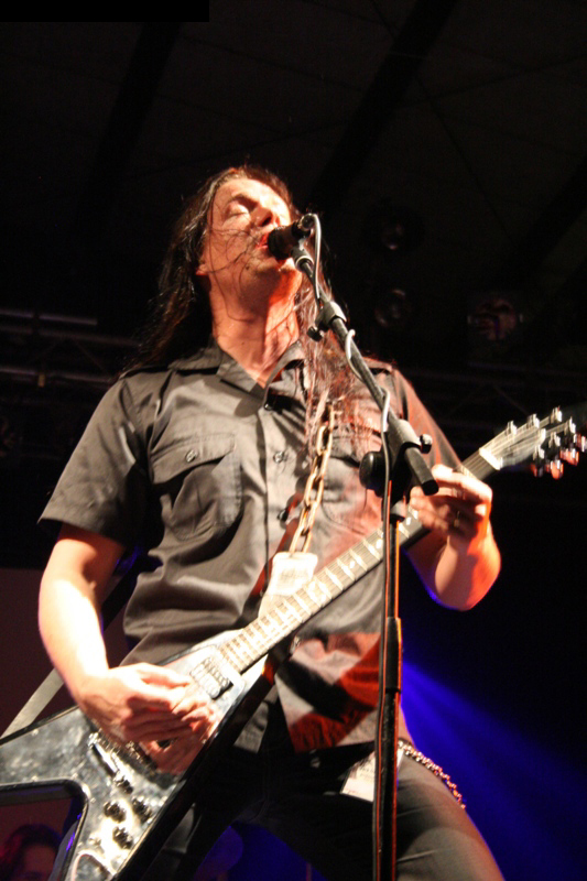 Ville Laihiala playing live at Estragon Bolgna with Poisonblack.